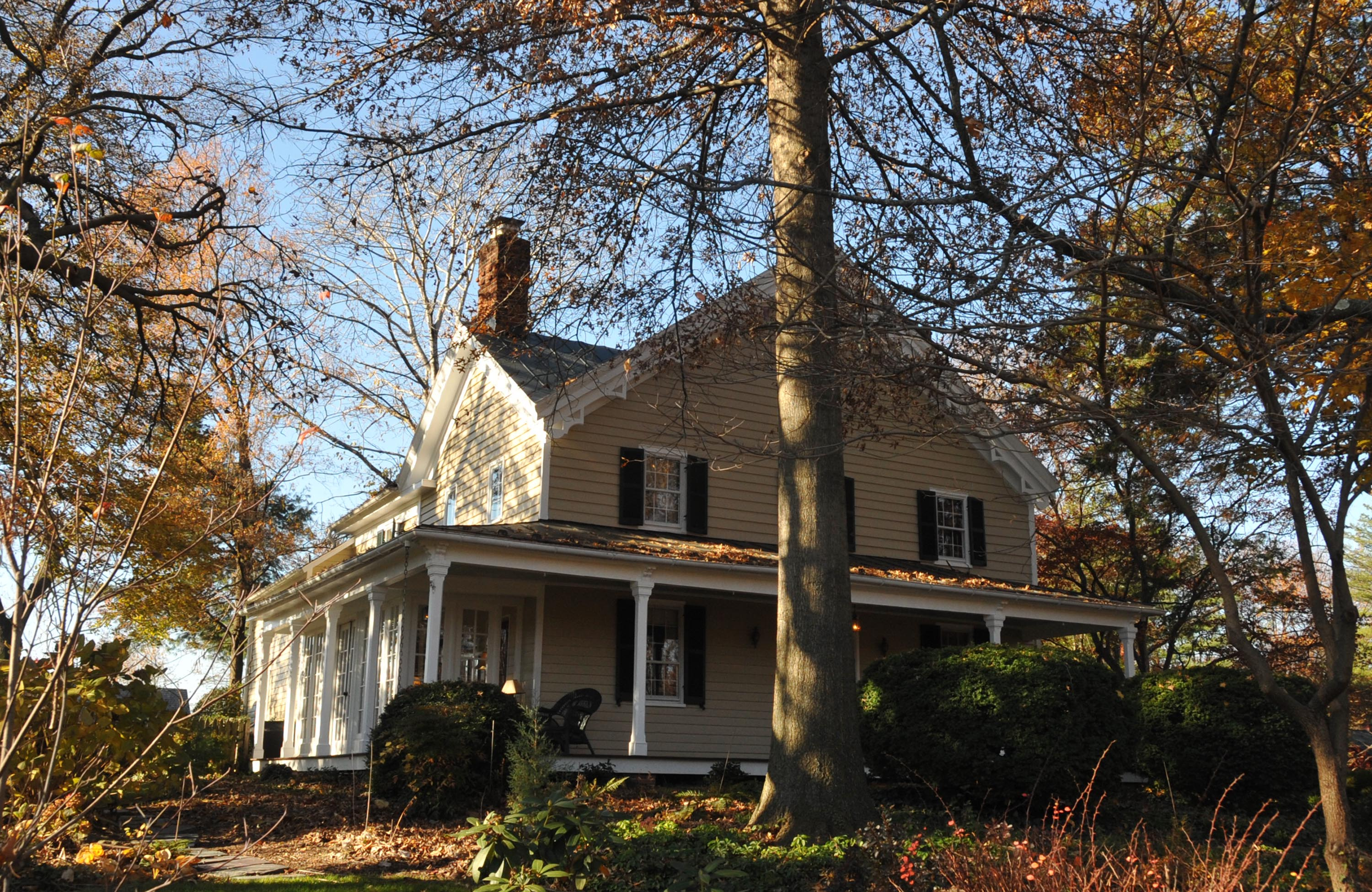 BUILT CIRCA 1849 BY JOSEPH BIRCH, A BLACKSMITH, FARMER, AND FOUNDER OF THE METHODIST CHURCH. HAS HAD SEVERAL ADDITIONS AND STAYED IN THE FAMILY UNTIL 1968